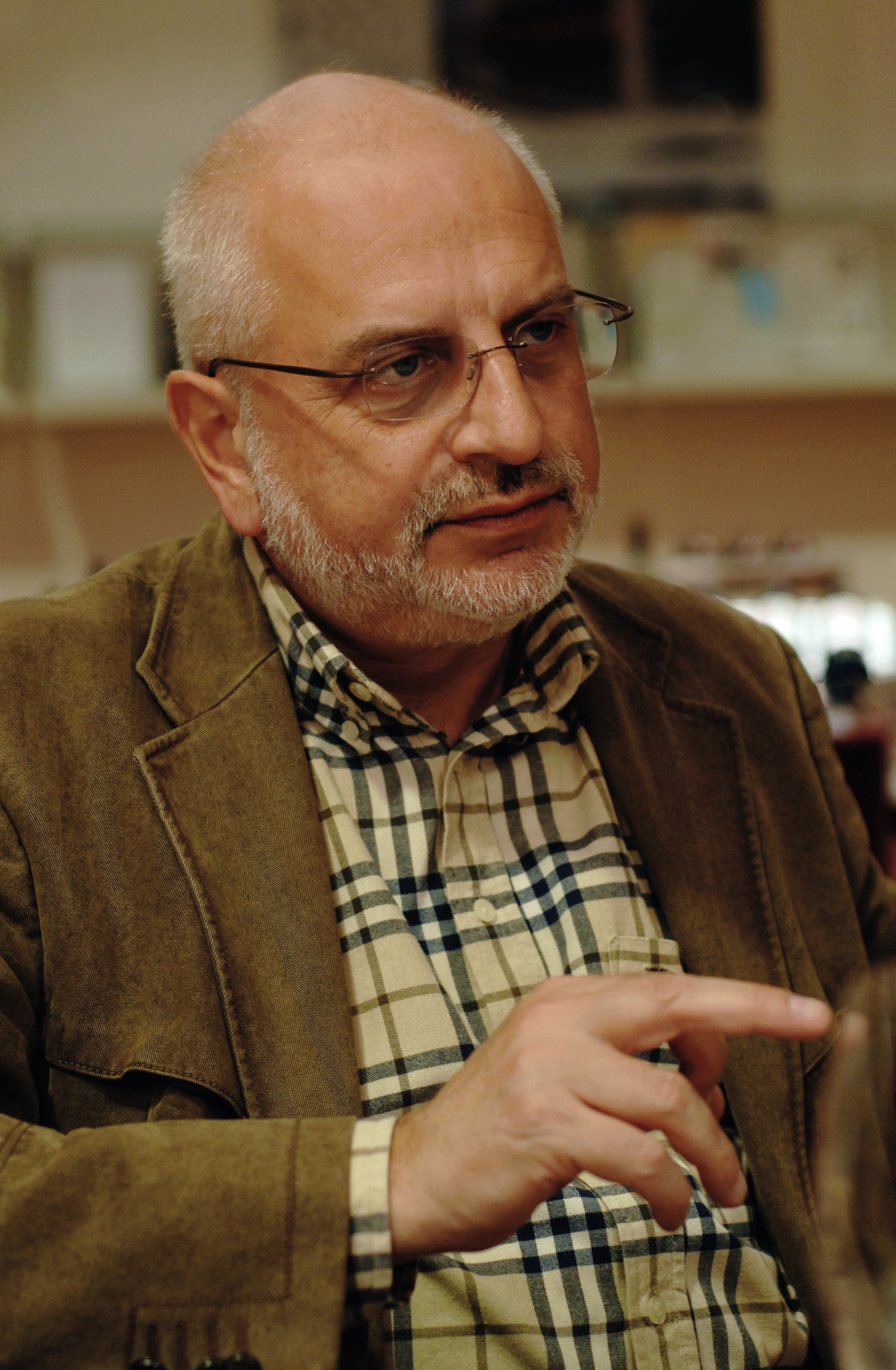 Viktor Siegl